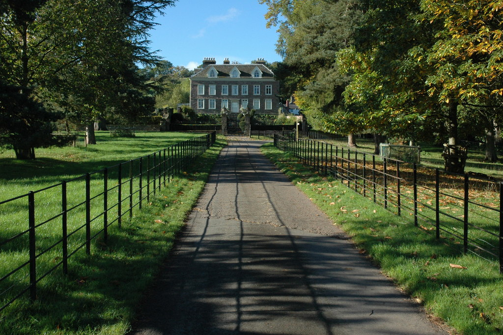 Trewyn House, Llanvihangel Crucorney, Monmouthshire